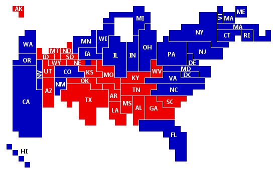 Final 2008 electoral college cartogram. Blue squares represent electoral votes for Obama-Biden. Red squares represent electoral votes for McCain-Palin. Note that this cartogram is topologically correct in that any two states which touch in reality touch on this cartogram. The cartogram has been published in J.R. Gott and W.N. Colley's 2008 paper, "Median Statistics in Polling" in Mathematical and Computer Modeling.